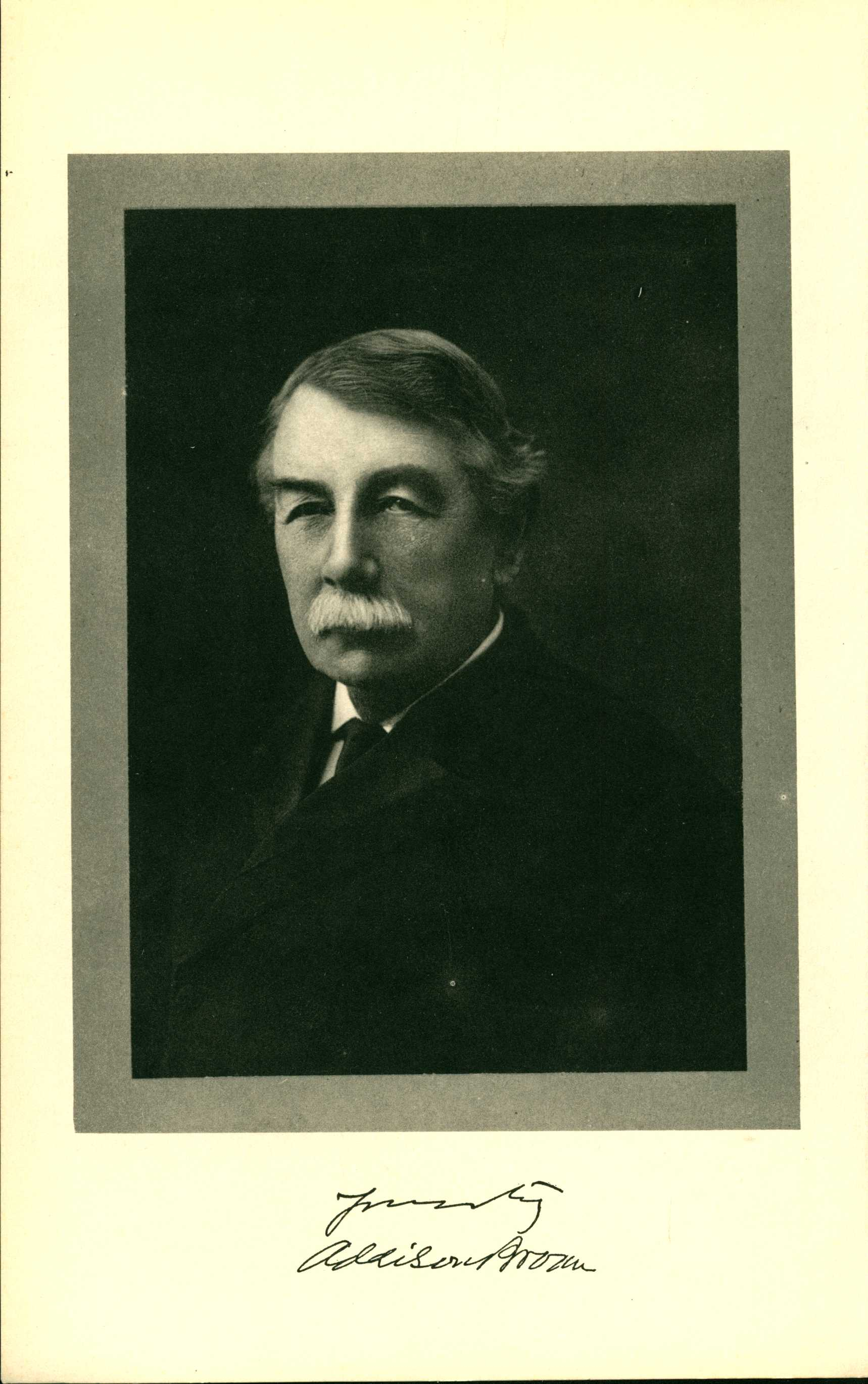 Addison Brown